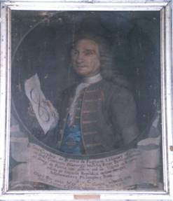 Portrait of Giulio Fagnano (1682-1766)